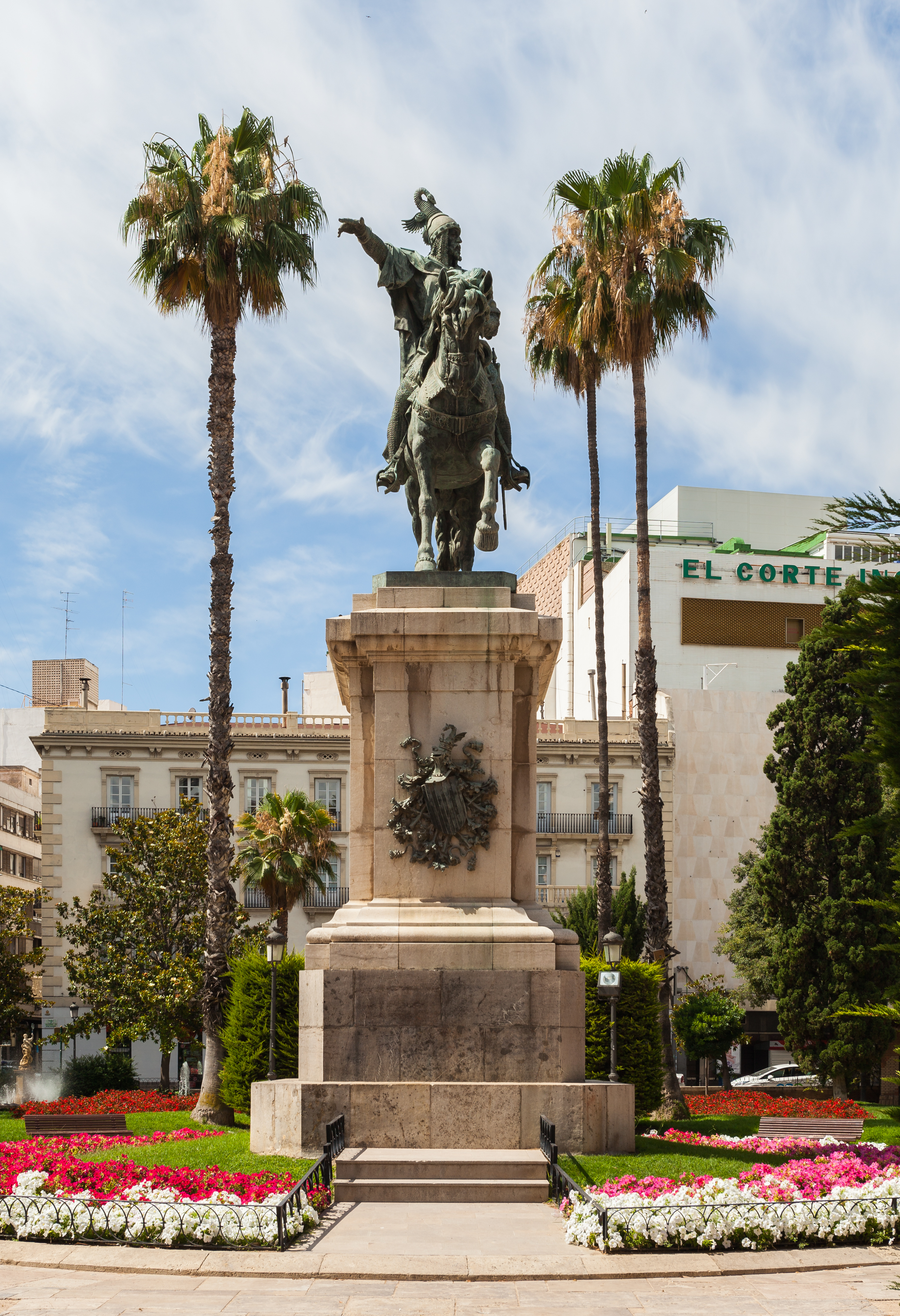 Monument to James I the Conqueror, Valencia, Spain